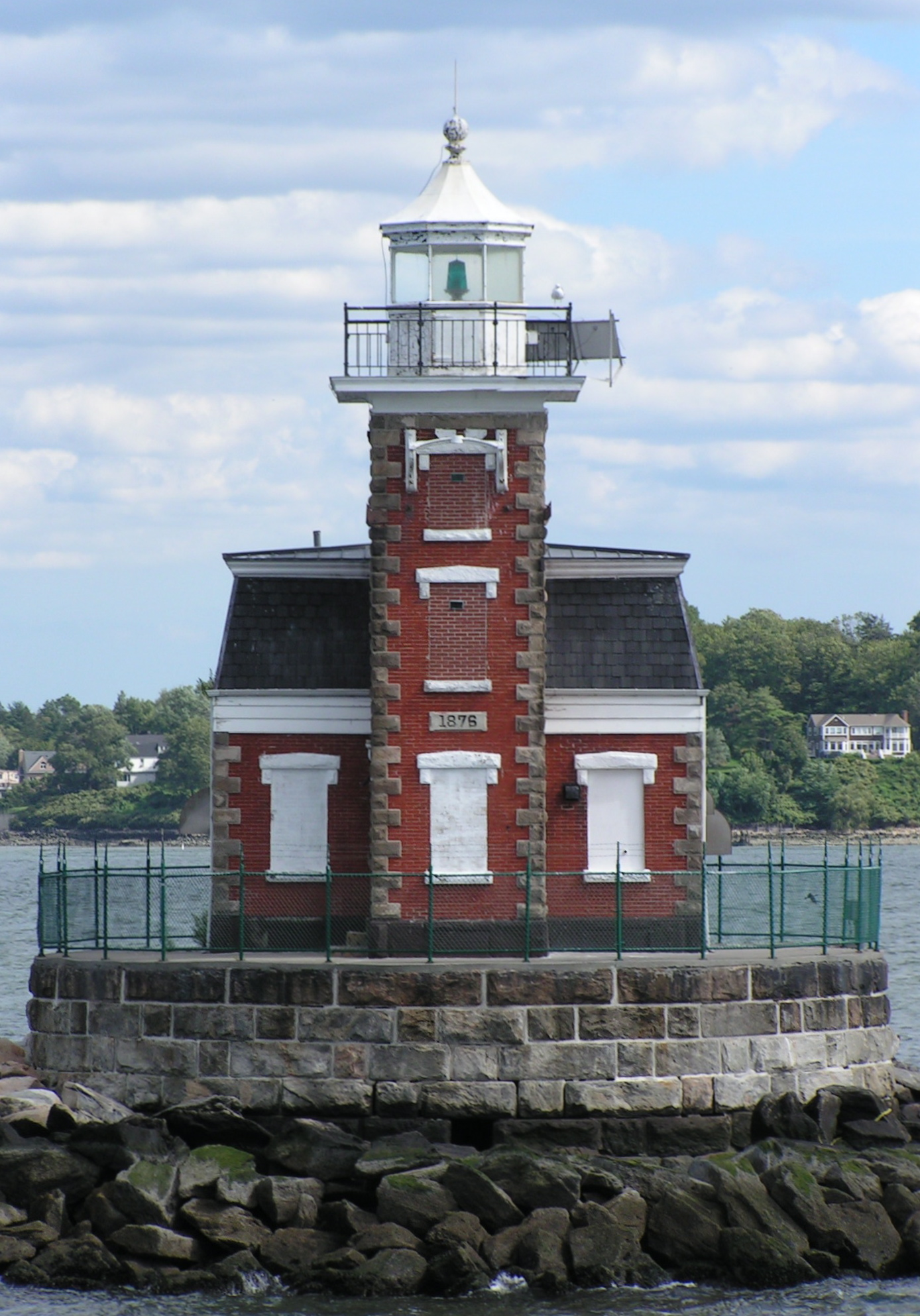 Photograph of the Stepping Stones Lighthouse off the coast of Long Island, NY